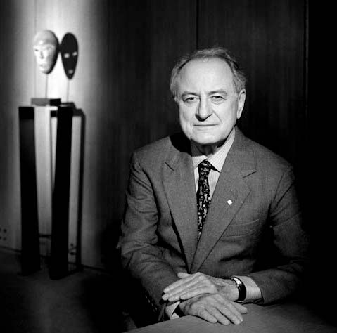 Pierre Bergé photographed by Studio Harcourt Paris